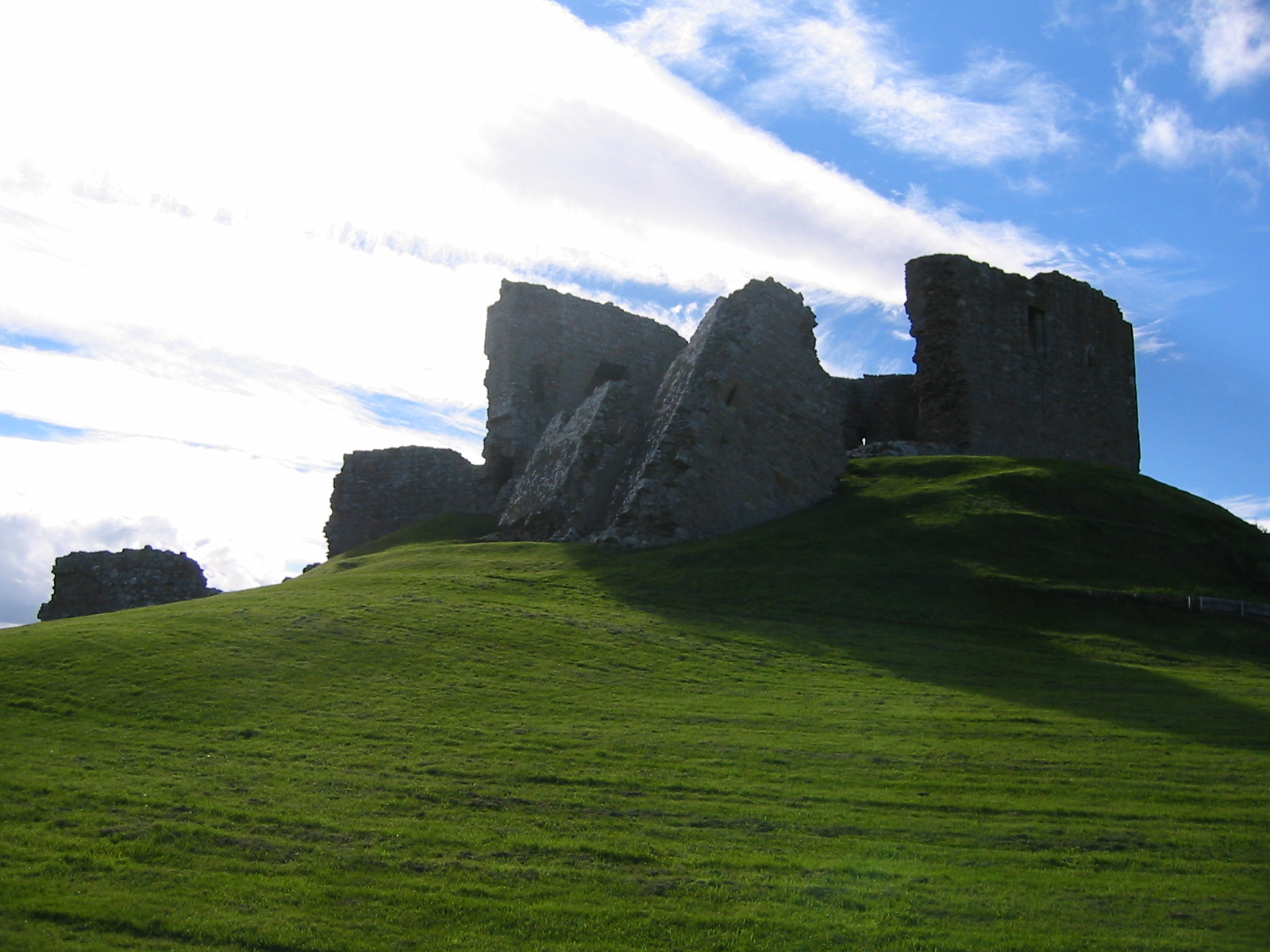 Duffus Castle Image taken by User:Kouros Summer 2002